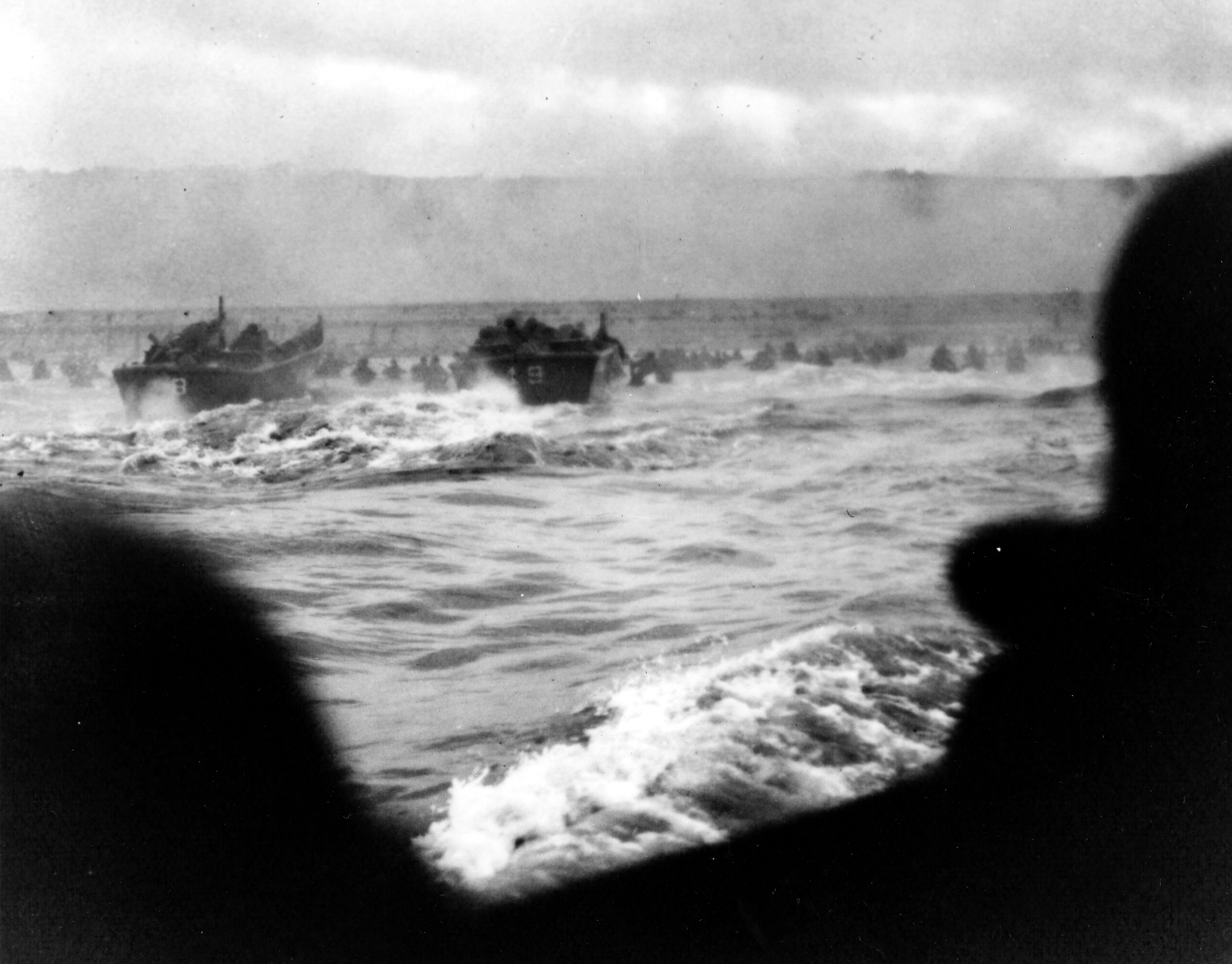 LCVP landing craft put troops ashore on "Omaha" Beach on "D-Day", 6 June 1944. The LCVP at far left is from USS Samuel Chase (APA-26).